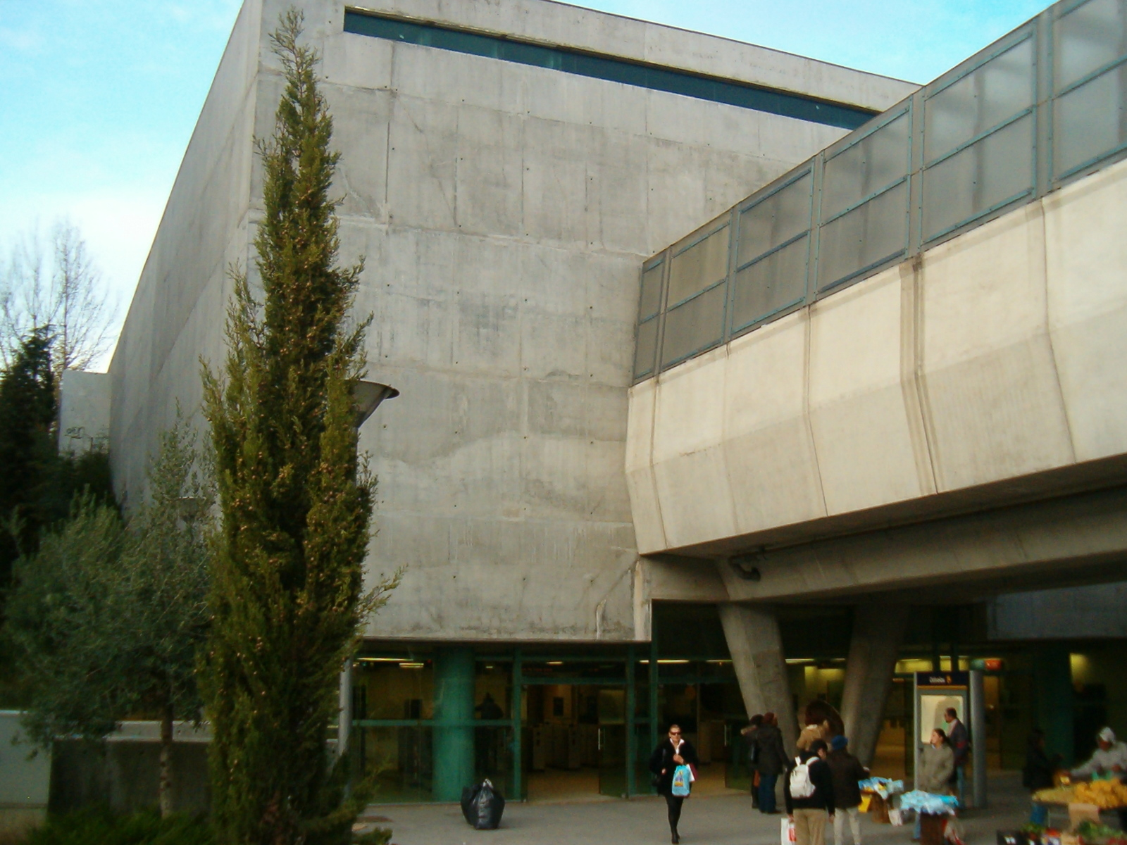 Metro station Odivelas (Lisboa)